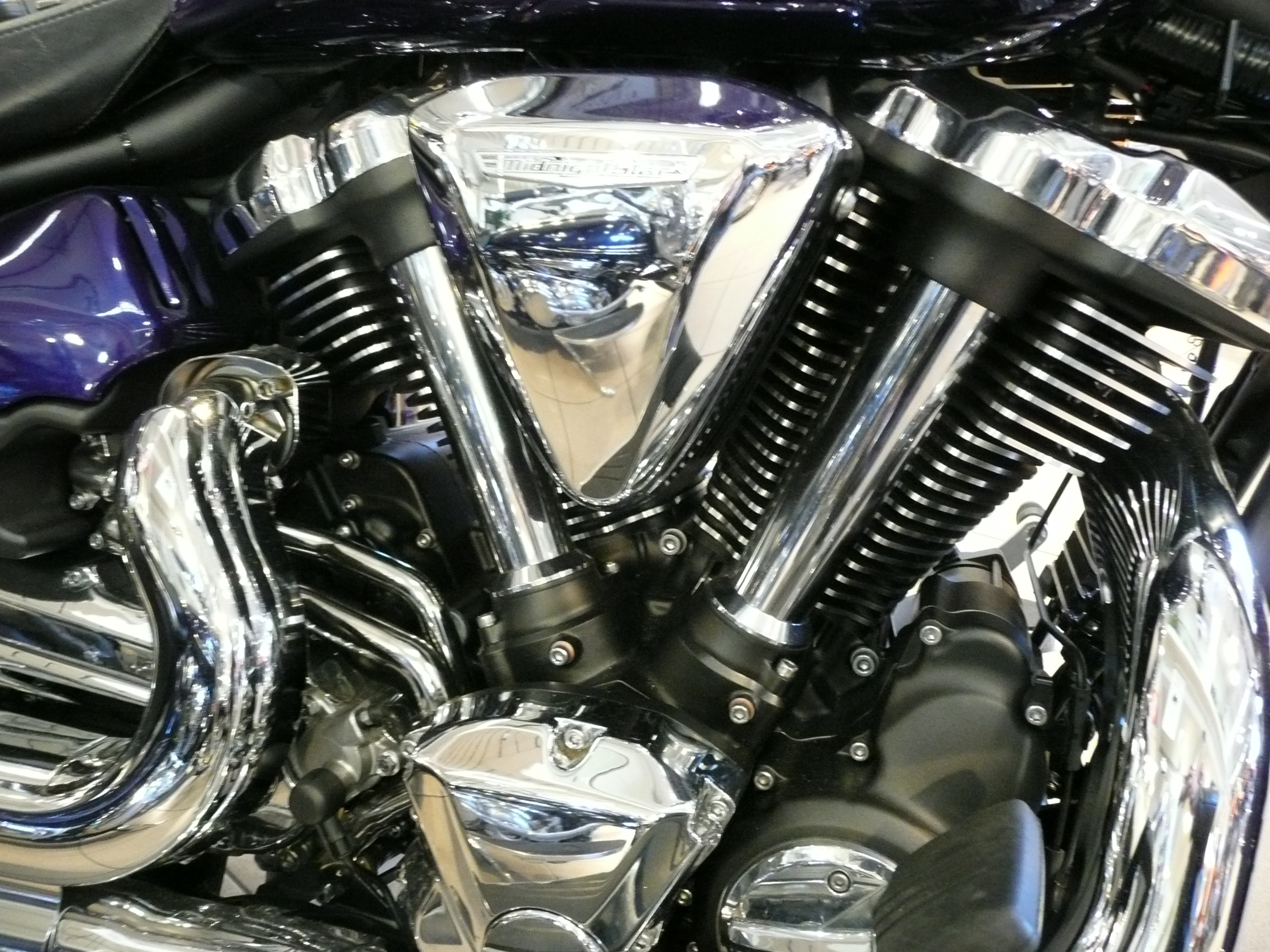 Yamaha Midnight Star motorcycle engine